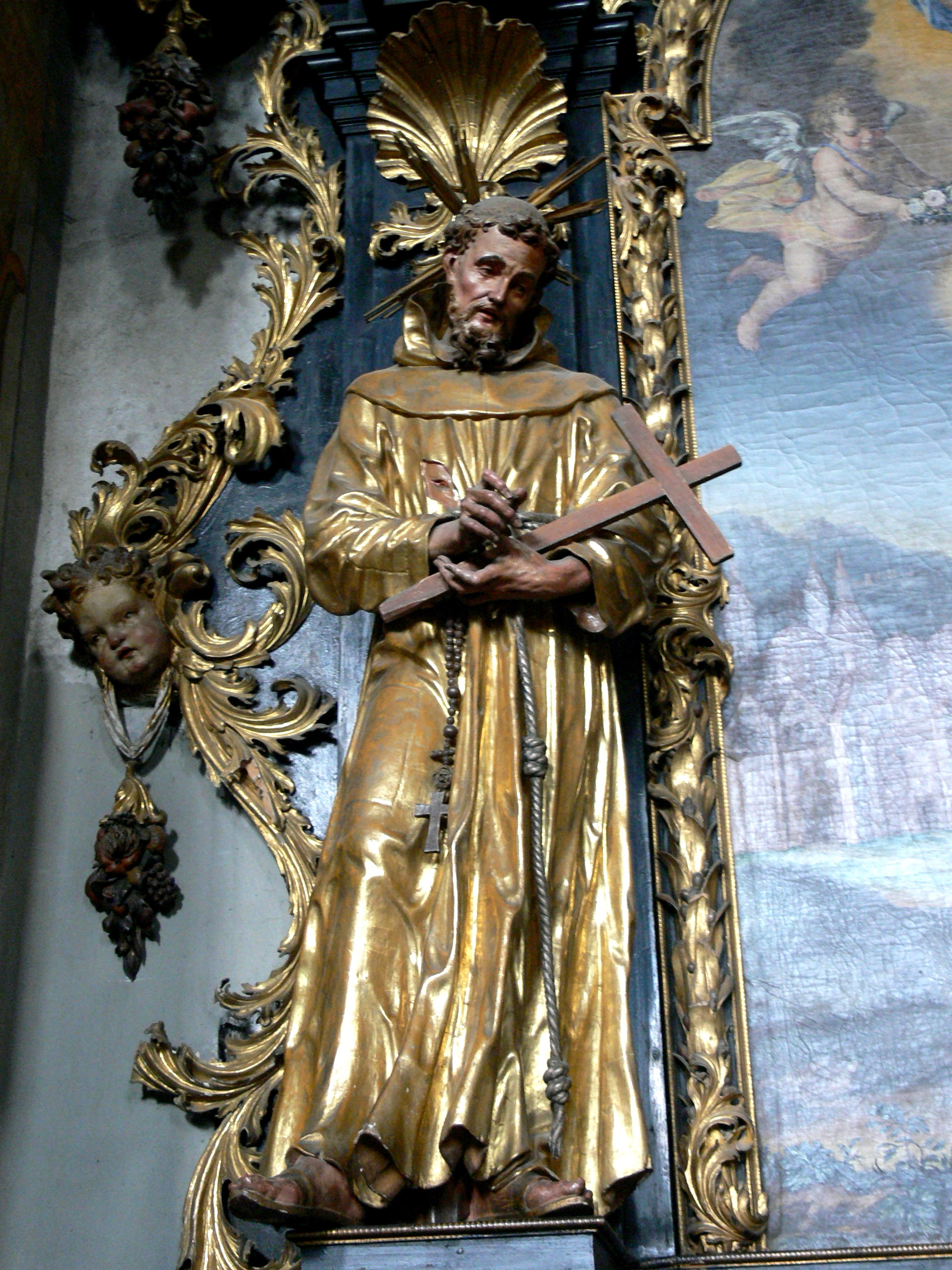 Sankt Wolfgang im Salzkammergut parish church ( Upper Austria ). Altar of Saint Anthony: Statue of Saint Francis of Assisi ( 1706 ) by Meinrad Guggenbichler.